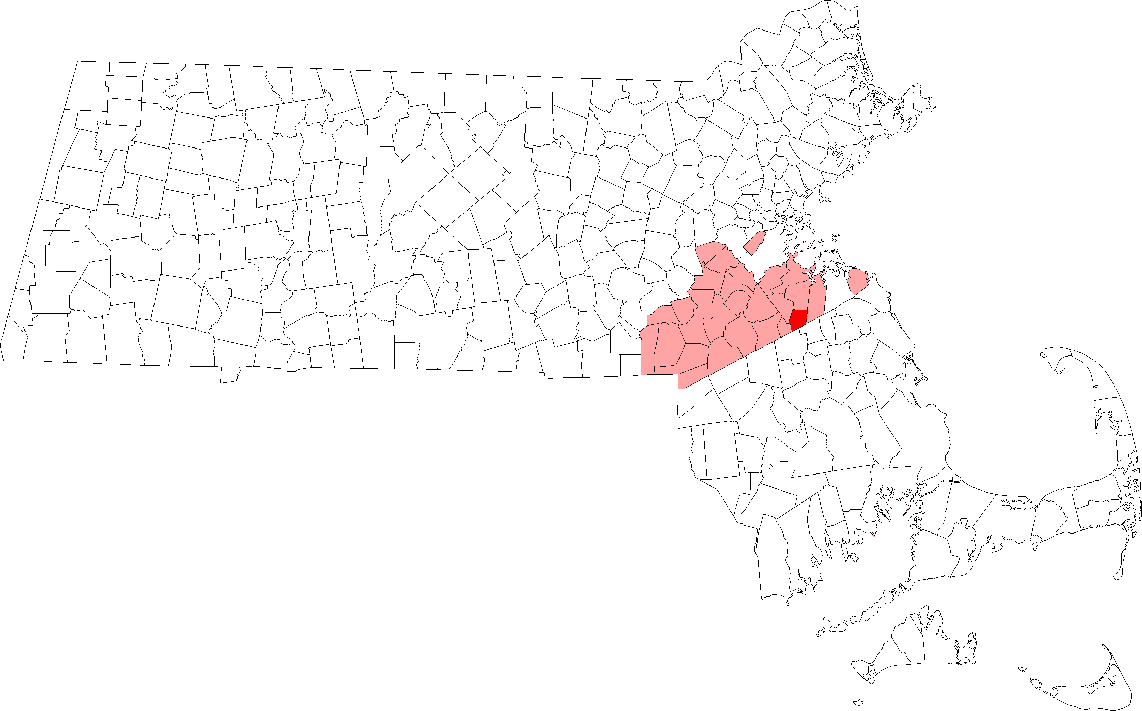 Location of Holbrook in Norfolk County, Massachusetts